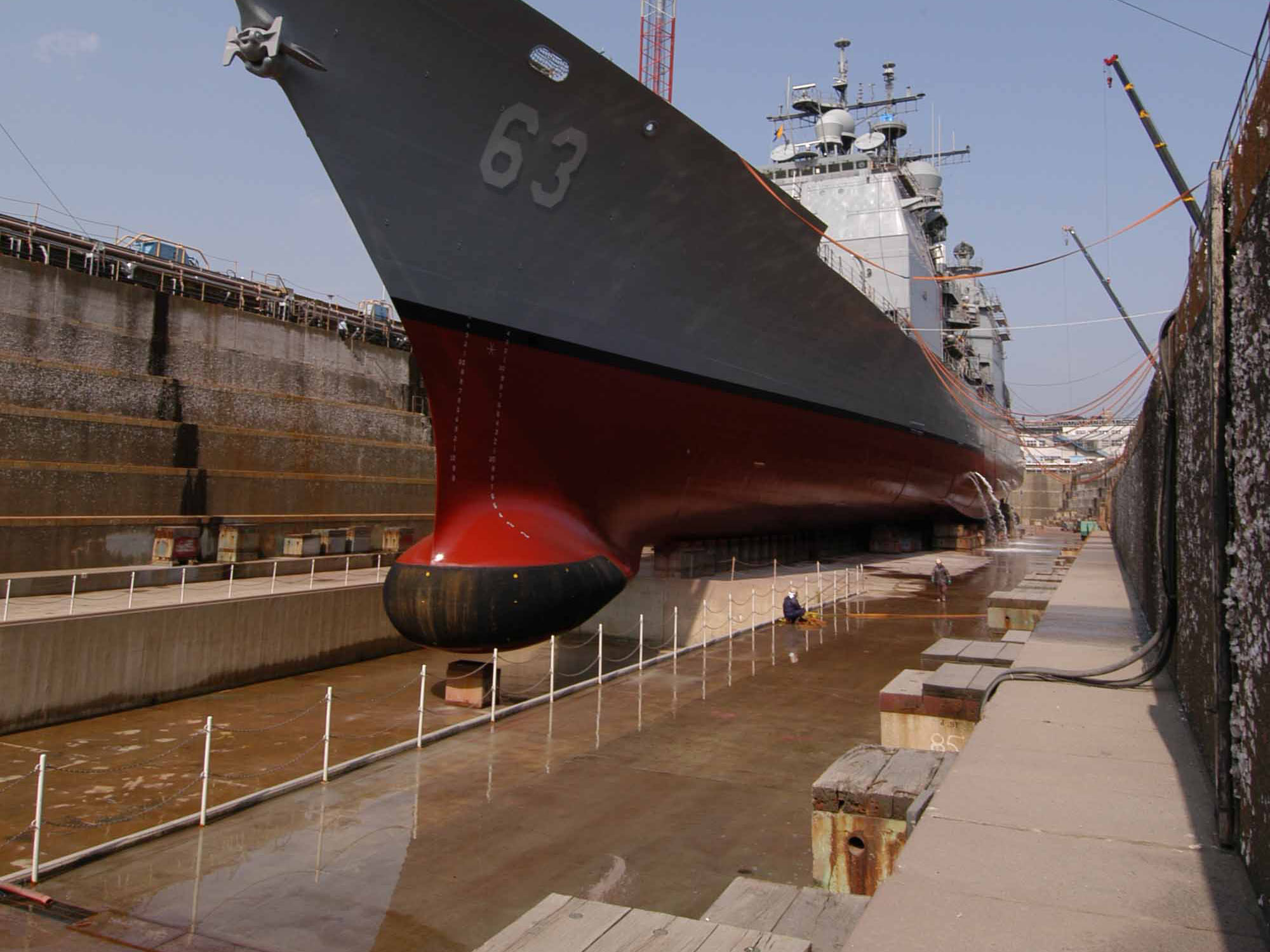 USS Cowpens (CG 63) at the completion of its Ship's Repair Force (SRF) dry dock period in Yokosuka, Japan